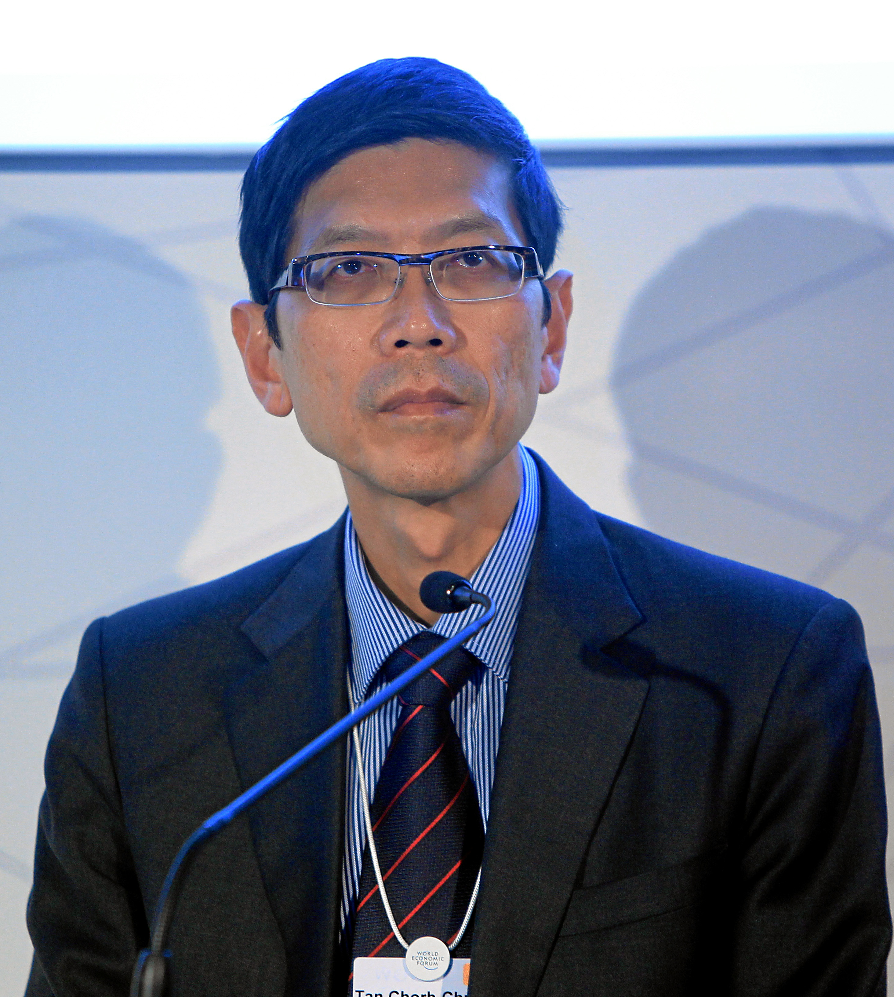 DAVOS/SWITZERLAND, 26JAN13 - Tan Chorh-Chuan, President, National University of Singapore, Singapore; Global Agenda Council on the Future of Universities, looks on during the session 'X Factors: Preparing for the Unknown' at the Annual Meeting 2013 of the World Economic Forum in Davos, Switzerland, January 26, 2013.. . Copyright by World Economic Forum. . Sebastian Derungs